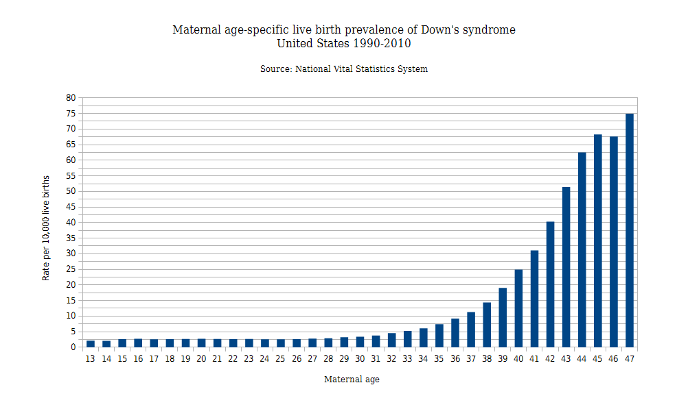 Maternal age-specific live birth prevalence of Down's syndrome in the United States 1990-2010.